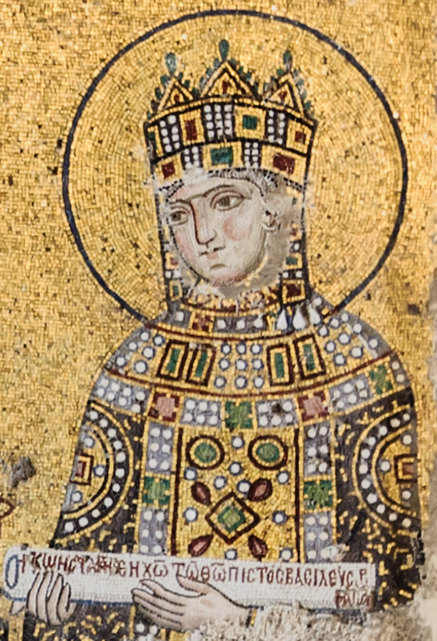 Zoe, detail of The Empress Zoe mosaics (11th-century) in Hagia Sophia (Istanbul, Turkey).